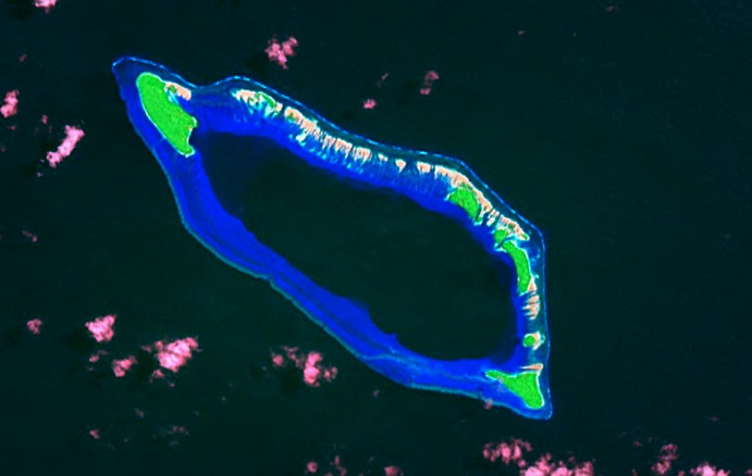 Pakin Atoll, Senyavin Islands, Caroline Islands, Pacific Ocean